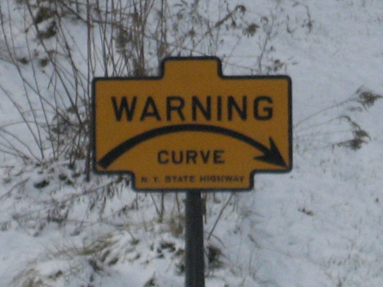 Historic marker of the Warning Curve, Norwich, NY.